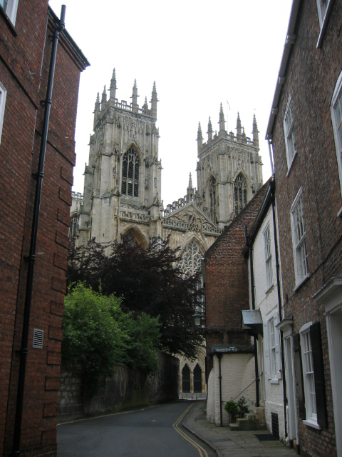 A view of York Minster from Precentor's Court. Photo taken by Dudesleeper on July 2, 2003.